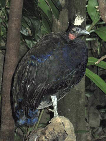 Congo Peafowl at Bronx Zoo.